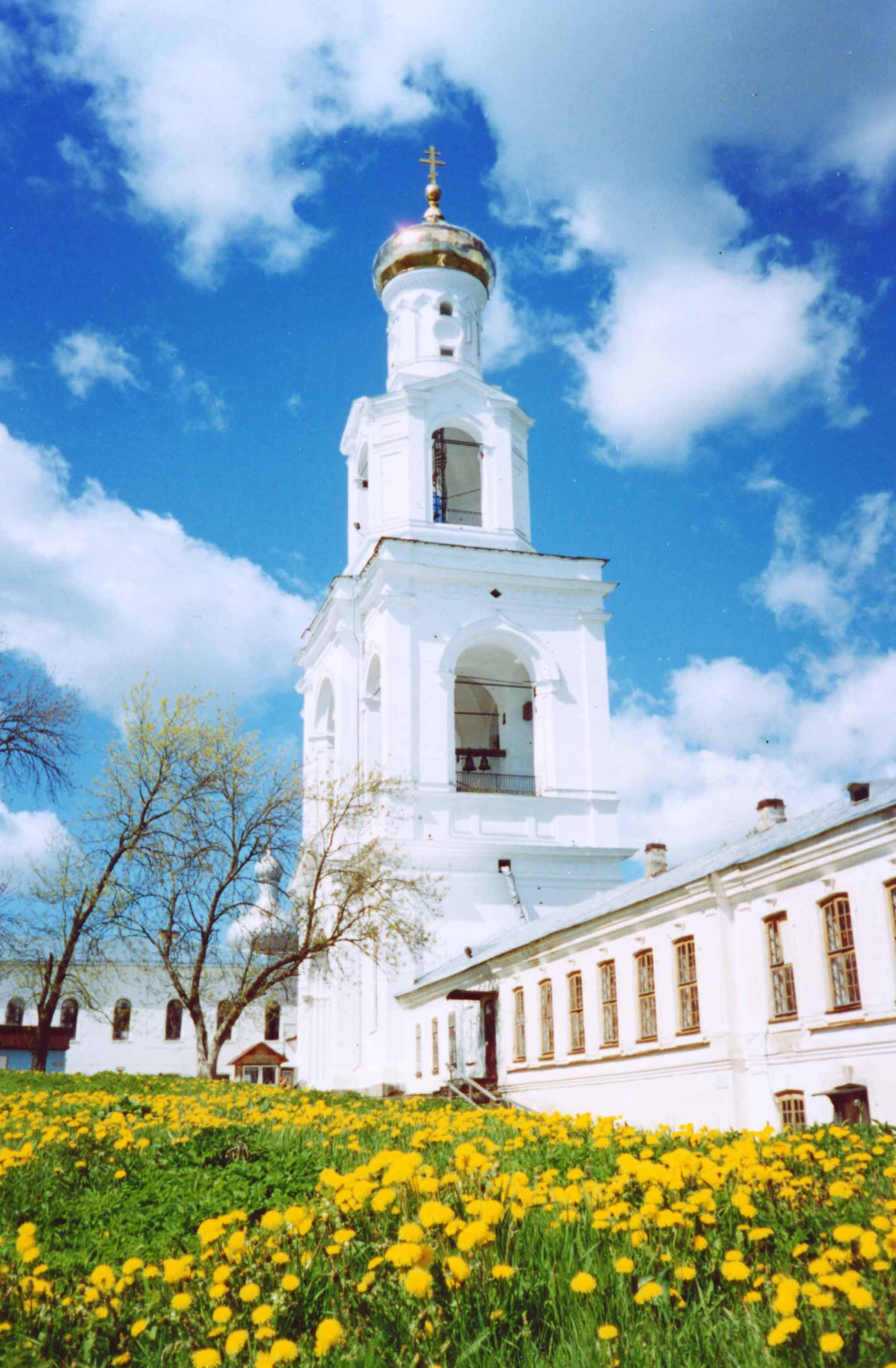 Bell tower of Yuriev monastery in Veliky Novgorod